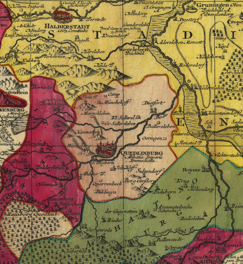 Territory of Quedlinburg Abbey in the mid-18th century. Quedlinburg was a self-ruling imperial abbey. Described on the map as "Abbatia Imperii Immediata" (Immediate Imperial Abbey). Cropped from a map of Matthäus Seutter titled Principatus Halberstadiensis, Abbat: Quedlinburgensis, etc.